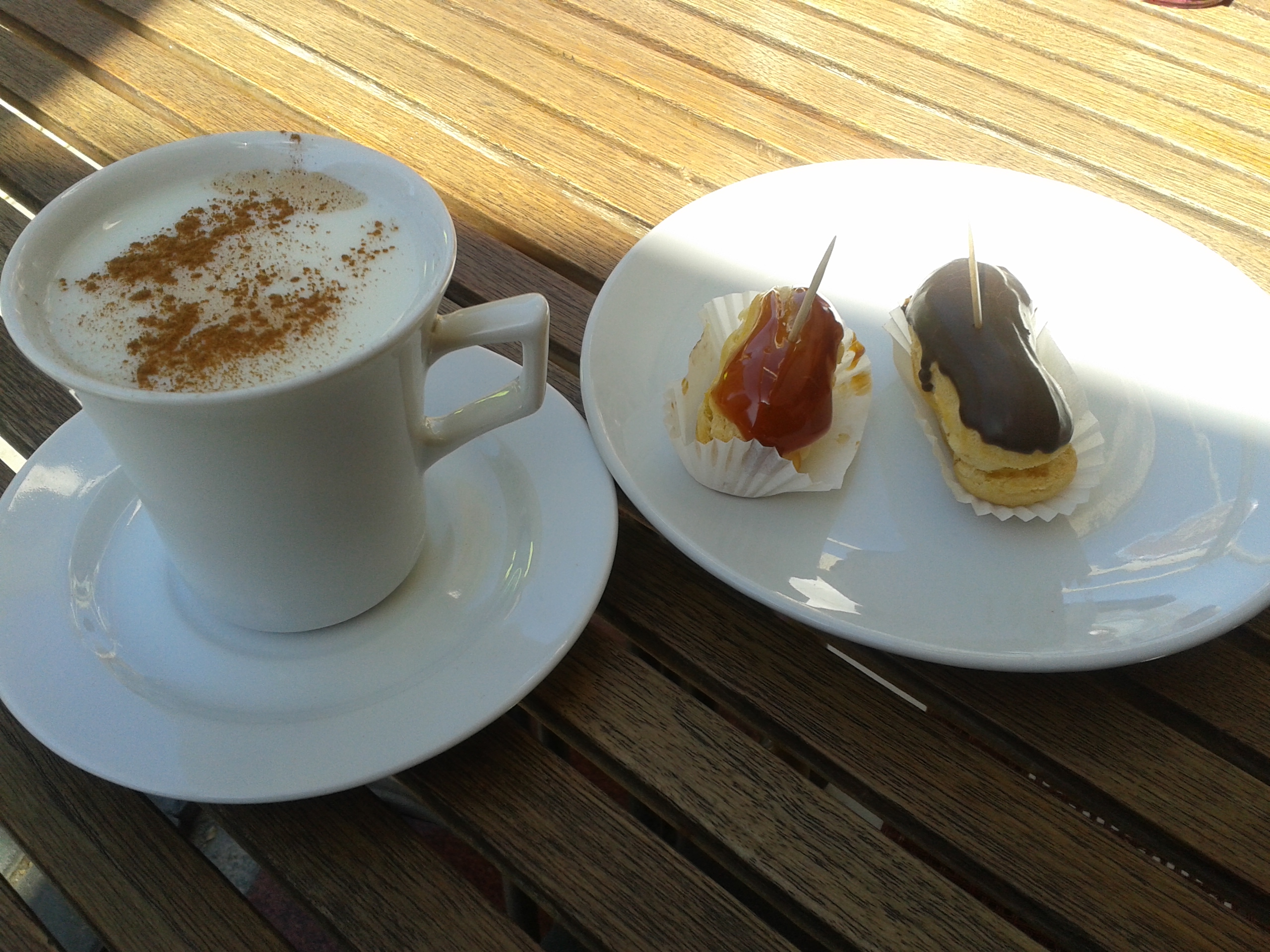 A cup of "salep" with a couple of "ekler" in Ankara, one of them with chocolate and the other caramel topping.